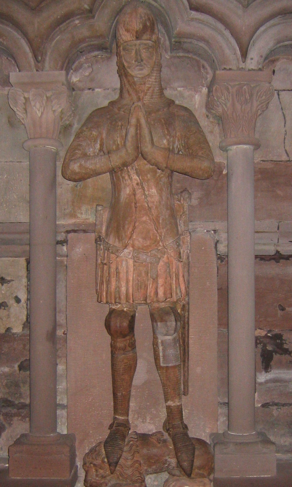 14th-century tomb effigy in Freiburg Minster, presumably depicting Frederick, count of Freiburg (d. 1356), formerly misidentified as depicting Berthold V of Zähringen. This would originally have been a recumbent effigy on a sarcophagus but is now shown as standing upright on the wall of Freiburg Minster.